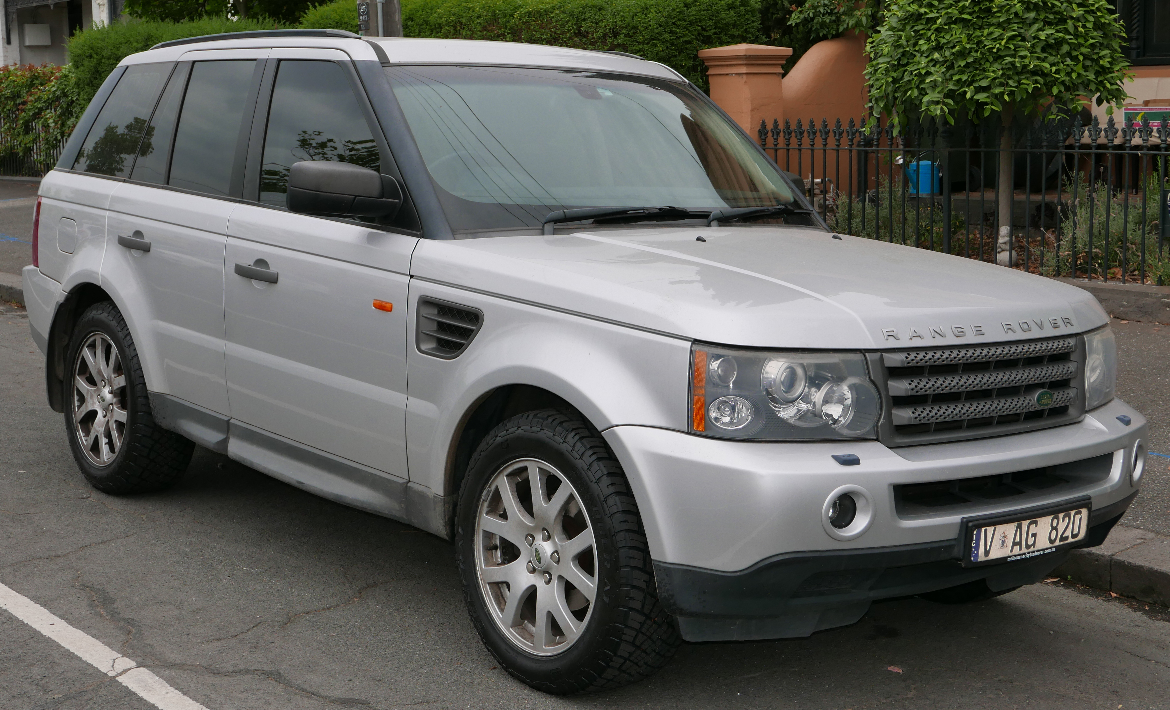 2005 Land Rover Range Rover Sport (L320 MY06) TDV6 wagon. Photographed in Princes Hill, Victoria, Australia. Vehicle registration enquiry resultsJurisdictionVictoriaRegistrationVAG820Chassis codeSALLSAA136A916925Engine code0058107Compliance date2005-09Year of manufacture2005